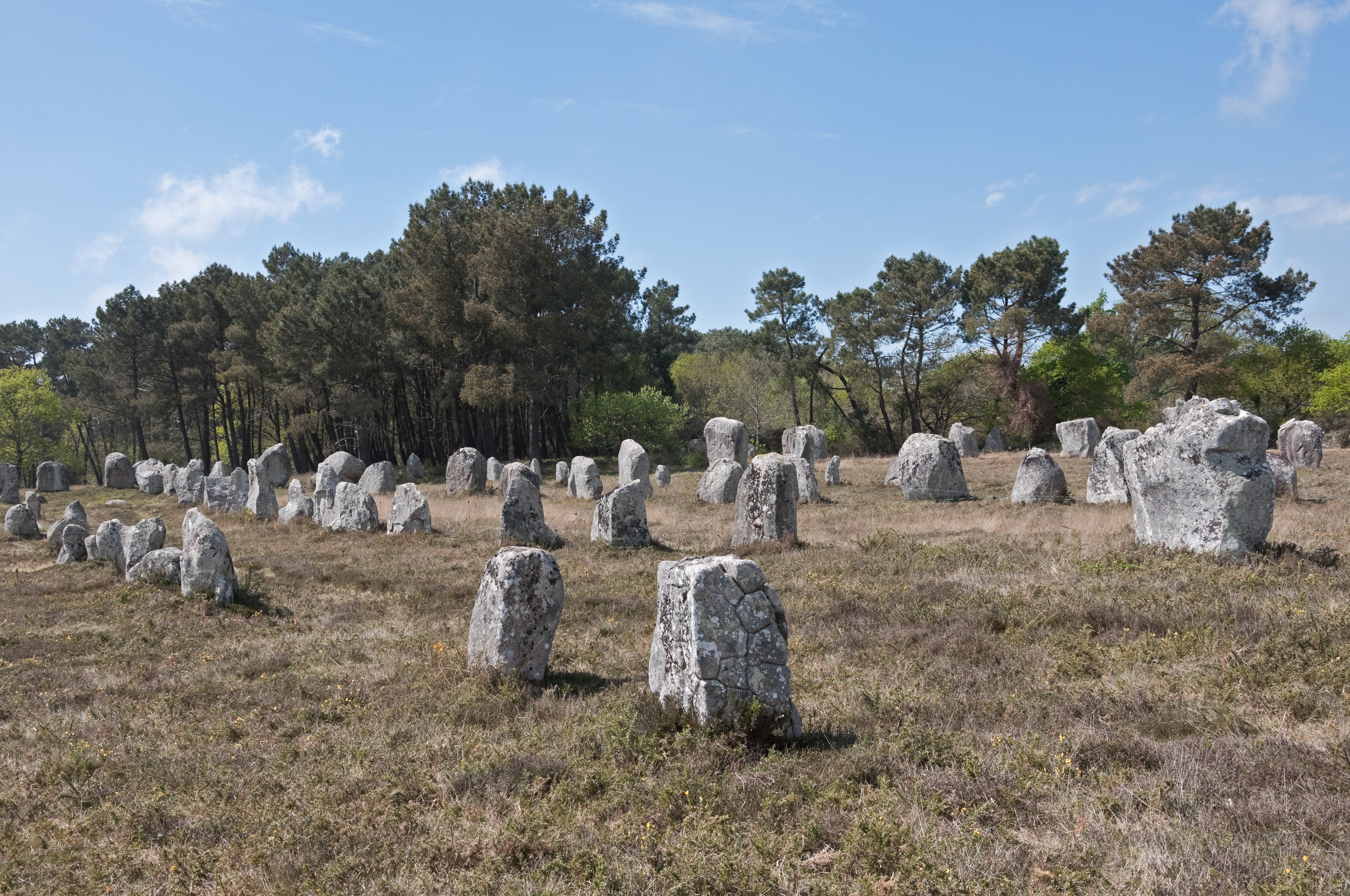 Stones in the Kerlescan alignment in Carnac (Morbihan, Brittany, France)